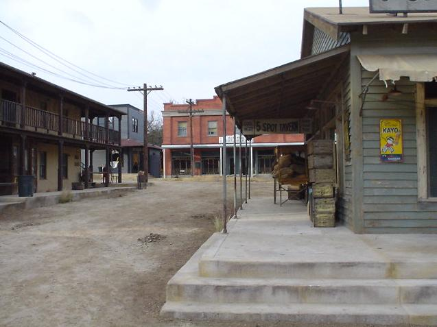 Photo of the Paramount Movie Ranch "old western town" film set. In Paramount Ranch Park — near Agoura Hills, in the Santa Monica Mountains National Recreation Area, Southern California. Taken February 2003, looking North.